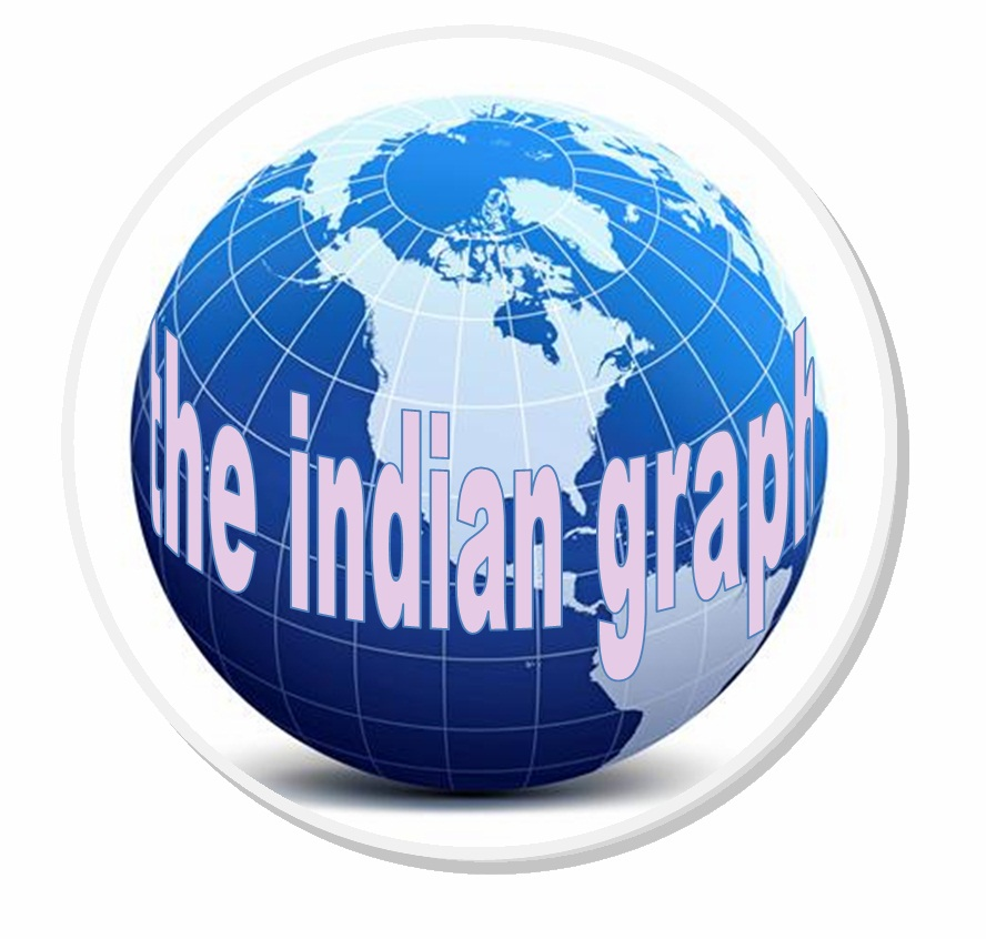 news logo